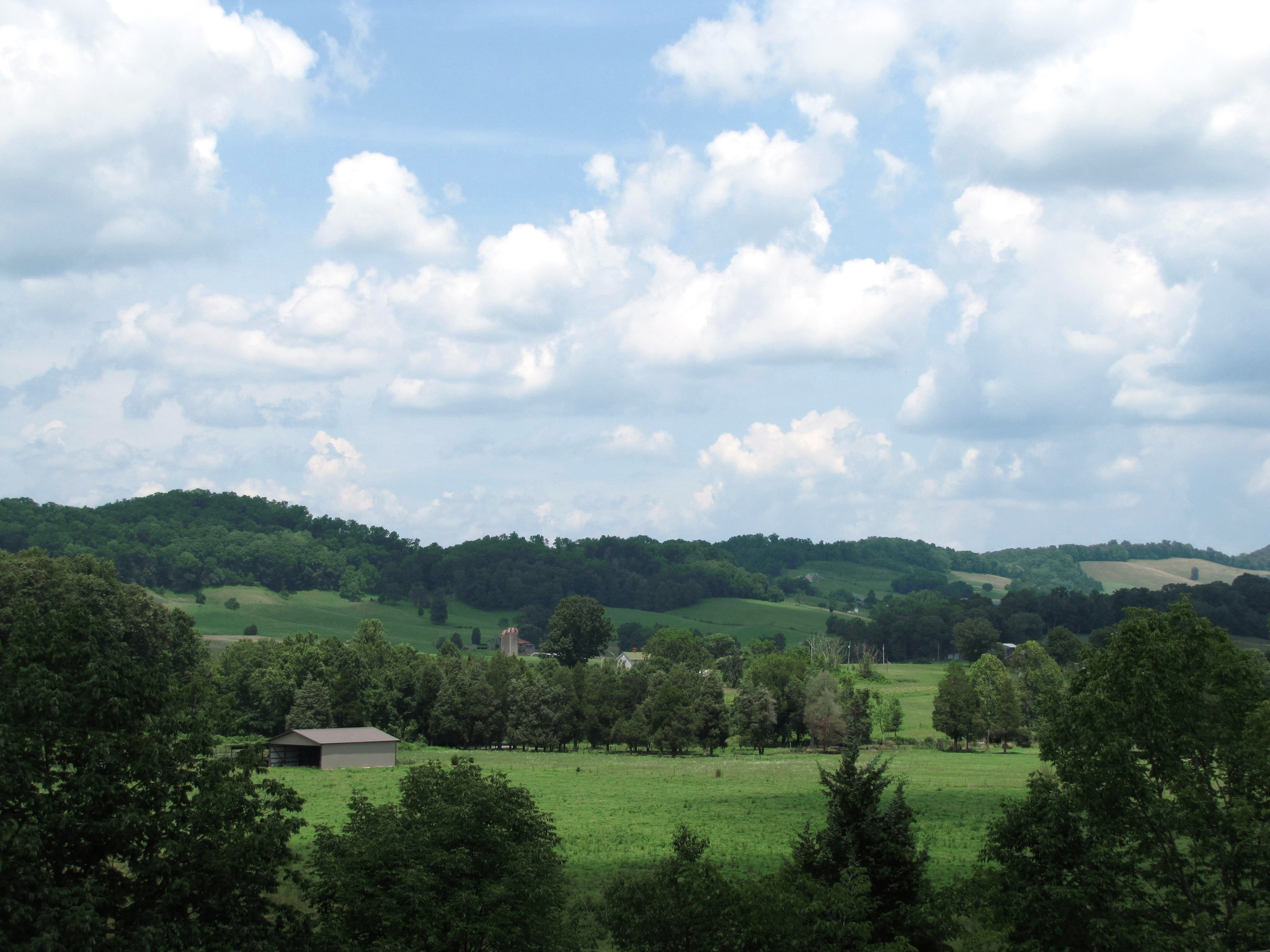 Carter Valley in Hawkins County, Tennessee, United States, viewed from the Hawkins County Memorial Gardens.